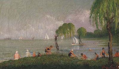 Filippo Galante (1872-1953), Bathers, oil on canvas, cm. 21 x 36, Signed Lower Right.